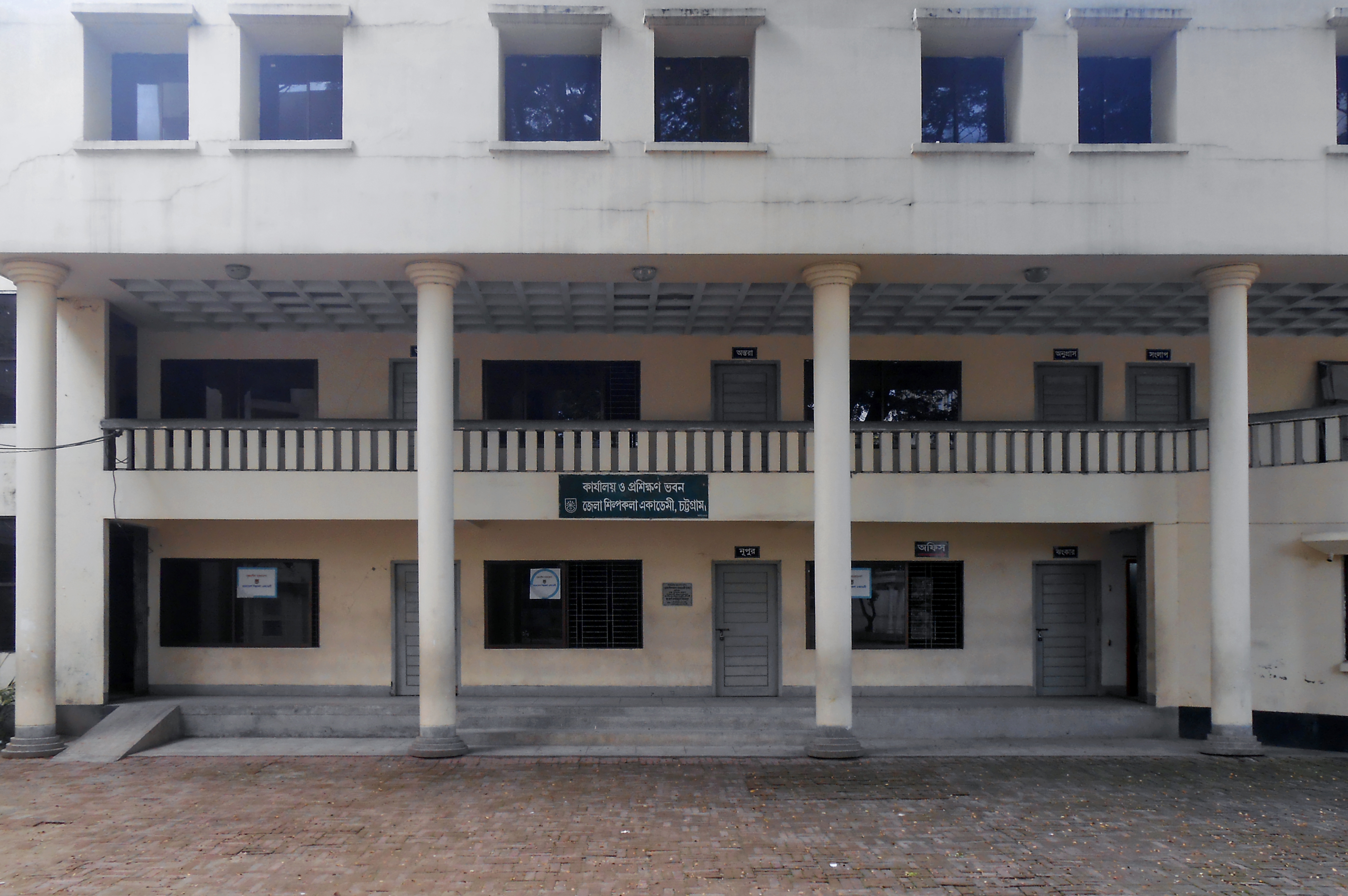 Office and training building at Zilla Shilpakala Academy, Chittagong (south-north view)